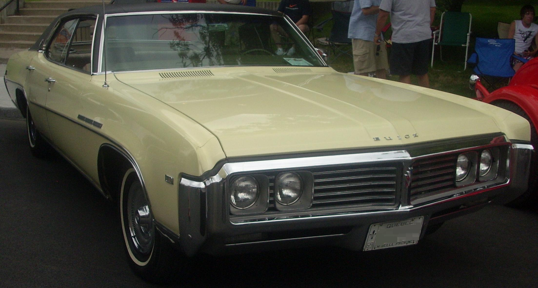 1969 Buick LeSabre Custom 4-door Hardtop photographed in Ste. Anne De Bellevue, Quebec, Canada at Cruisin' At The Boardwalk 2010.